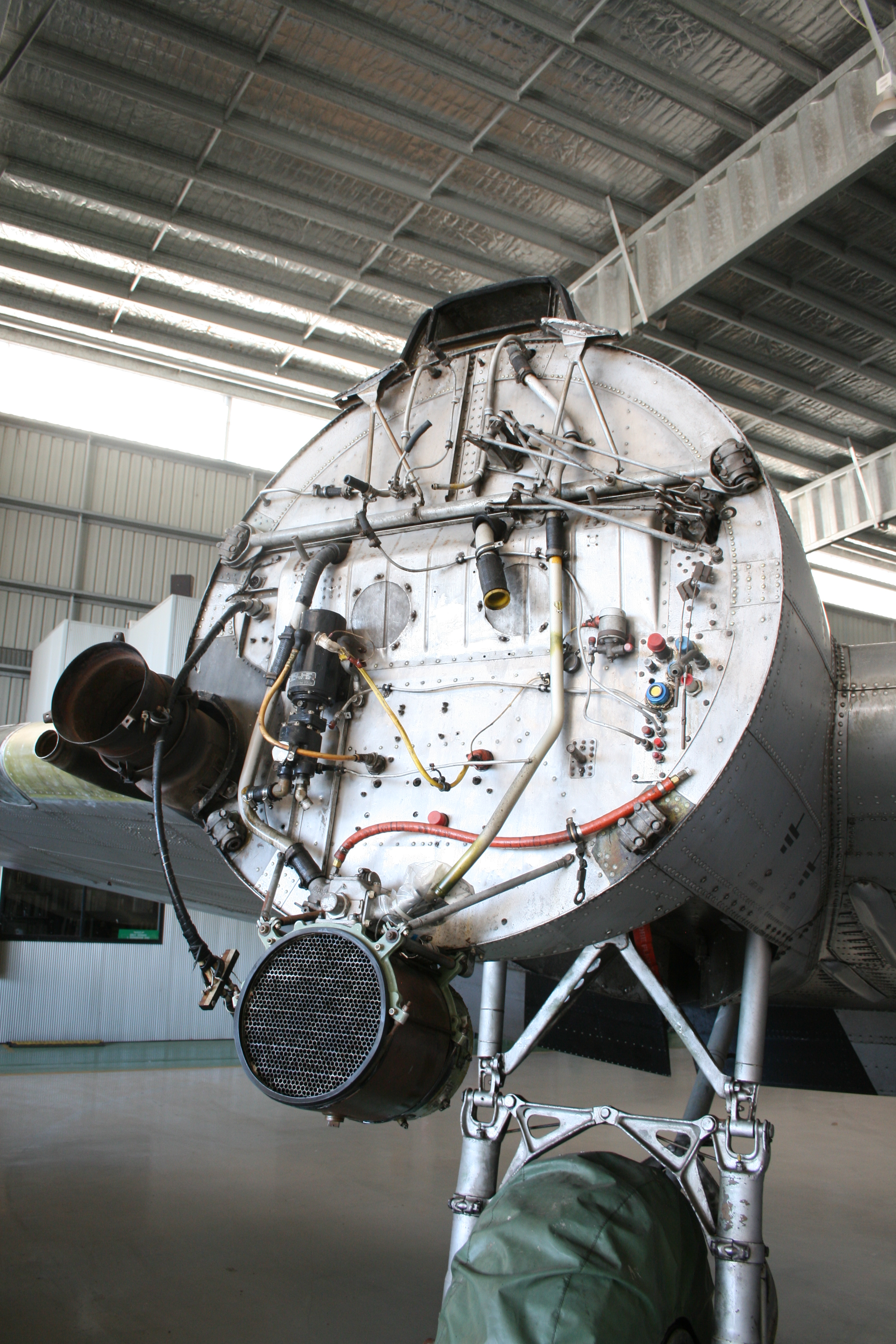 The firewall of an aircraft's engine nacelle. The firewall is meant to prevent any fire that breaks out in the engine compartment from spreading to the rest of the aircraft. Digital image of the starboard engine firewall of a Douglas C-47 Dakota taken by YSSYguy on 9 September 2012, for use in the Firewall article. YSSYguy| (talk|) 05:56, 14 February 2014 (UTC)